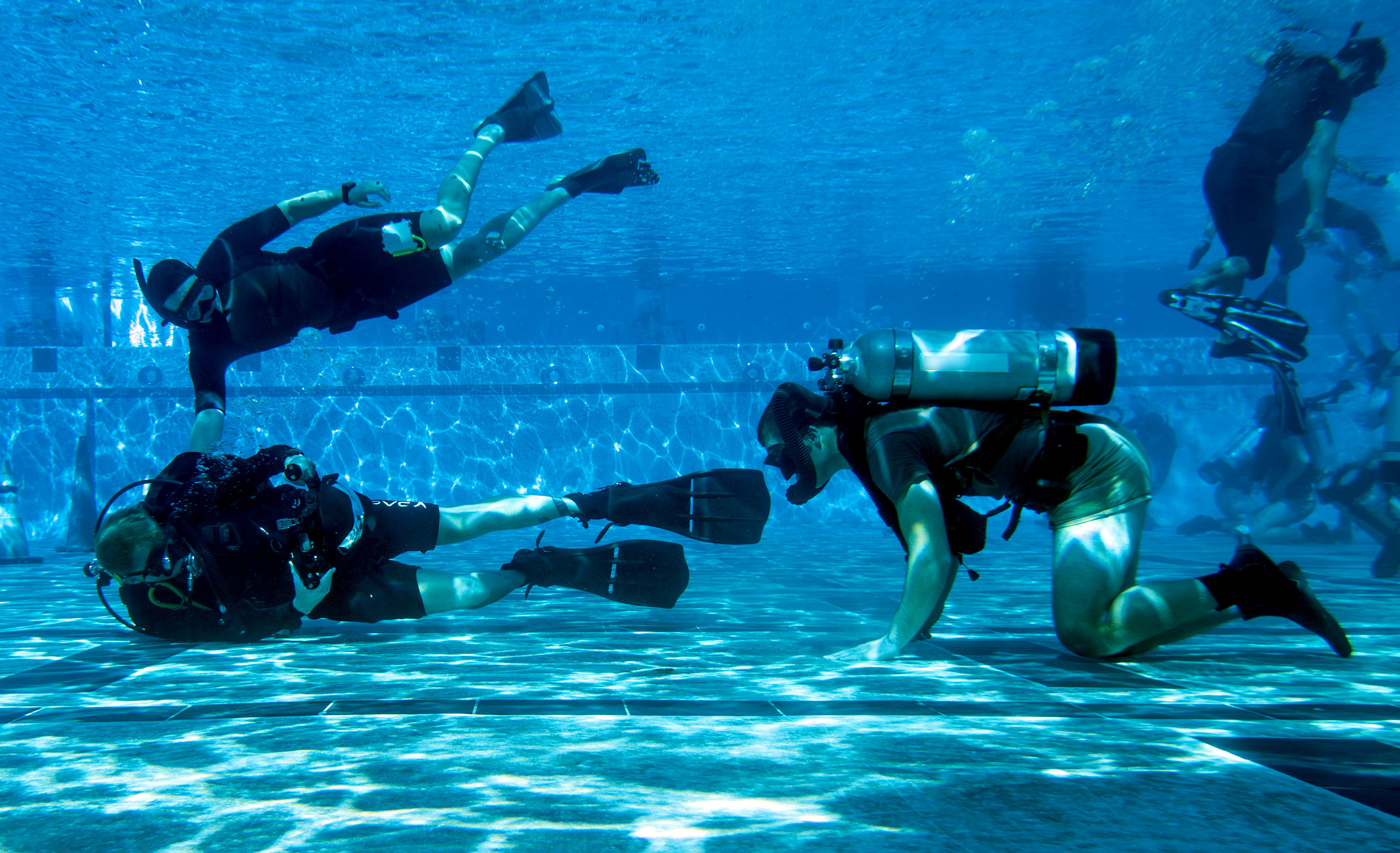 CORONADO, Calif. (Nov. 5, 2019) Mass Communication Specialist 3rd Class Alex Perlman, left, assigned to Commander, Naval Special Warfare Command (NSWC), photographs U.S. Navy SEAL candidates participating in Basic Underwater Demolition/SEAL (BUD/S) training. NSWC is the maritime component of U.S. Special Operations Command, and its mission is to provide maritime special operations forces to conduct full-spectrum operations, unilaterally or with partners, to support national objectives. (U.S. Navy photo by Mass Communication Specialist 1st Class Sean Furey/Released) 191105-N-WX059-0010